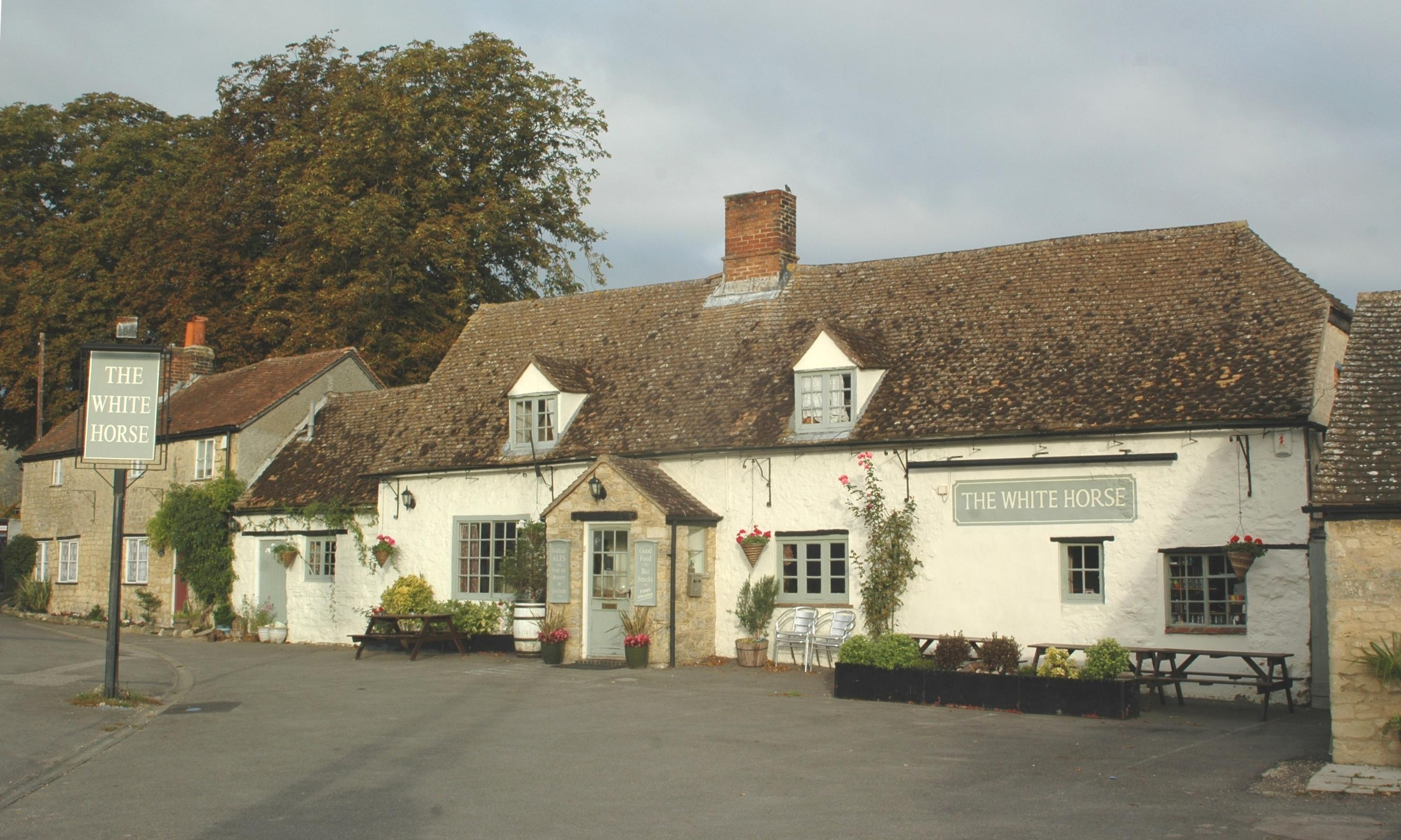 White Horse public house, Forest Hill, Oxfordshire, England